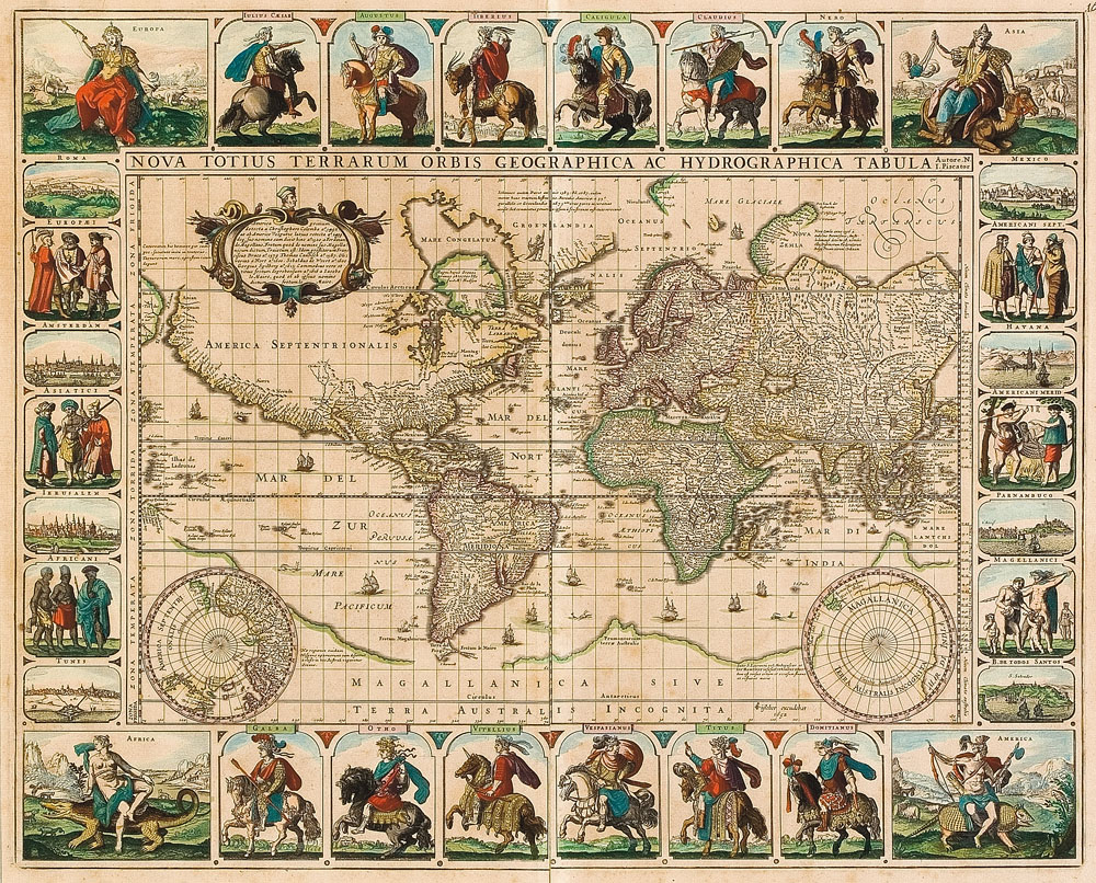 Nova Totius Terrarum Orbis Geographica Ac Hydrographica Tabula Autore, a map of the world by Claes Jansz. Visscher